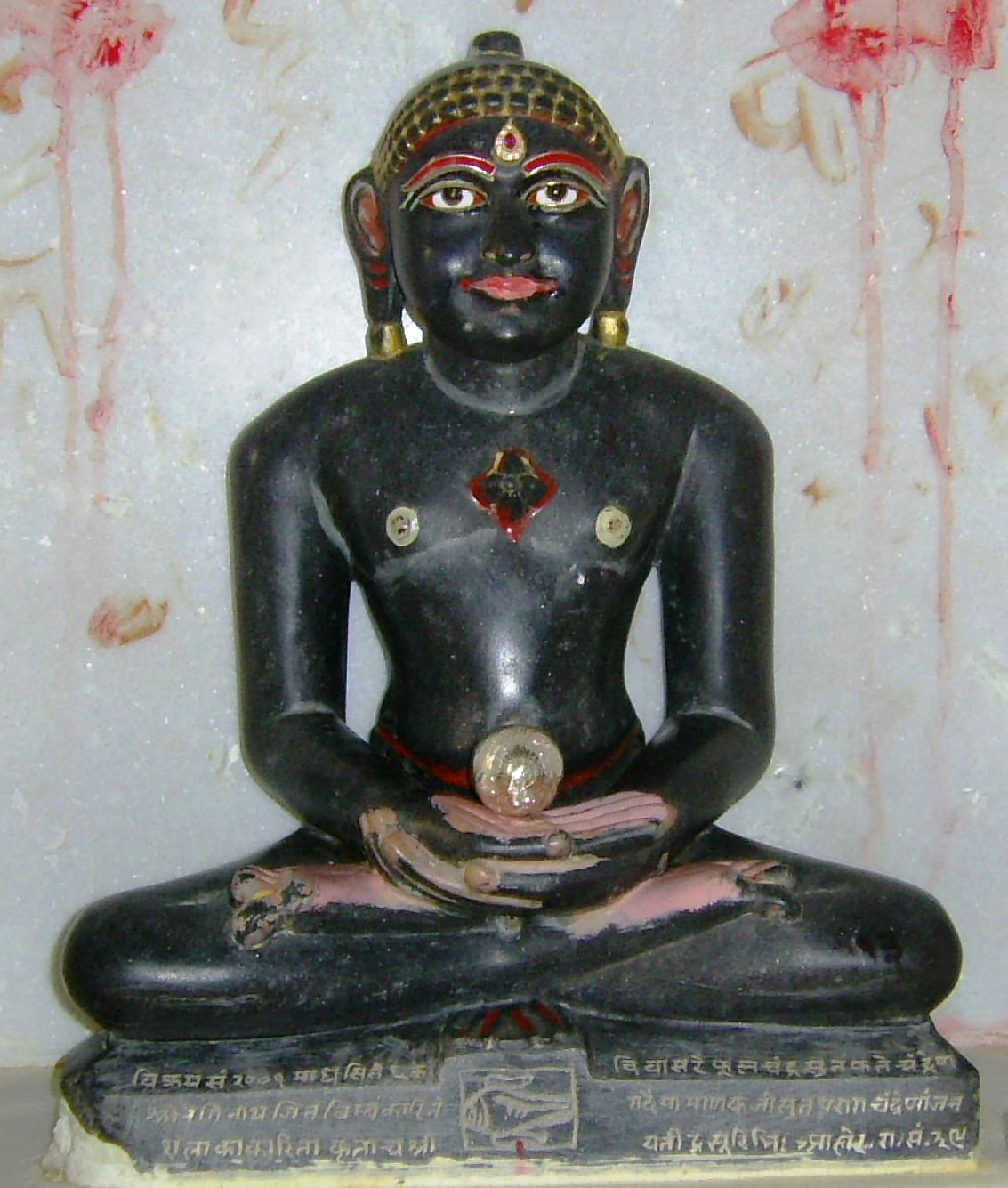 The picture of 22nd Jain Thirthankar Lord Arishtha Neminath, taken at Sri Munisuvrat-Nemi-Parsva Jinalaya, Santhu, Jalore, Rajasthan, India by Sony Digital Camera.